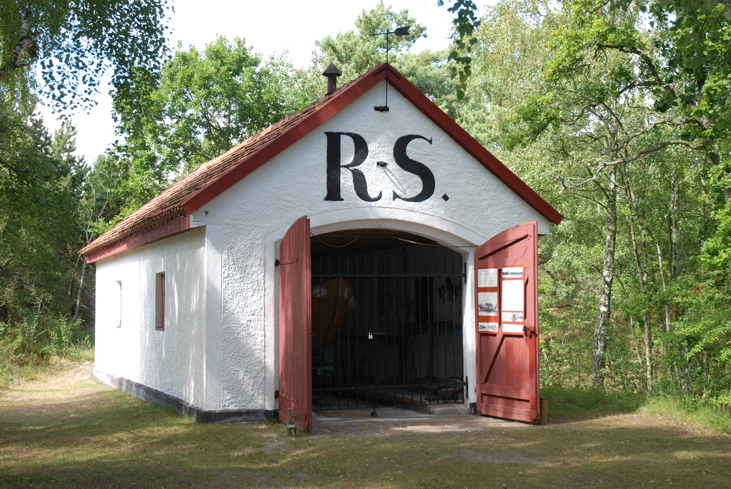 Sandhammaren Rescue Station, Sweden. Building from 1891, now a museum with the oldest preserved rescue boat in Scandinavia (built i Copenhagen 1855 och in active service for 90 years).